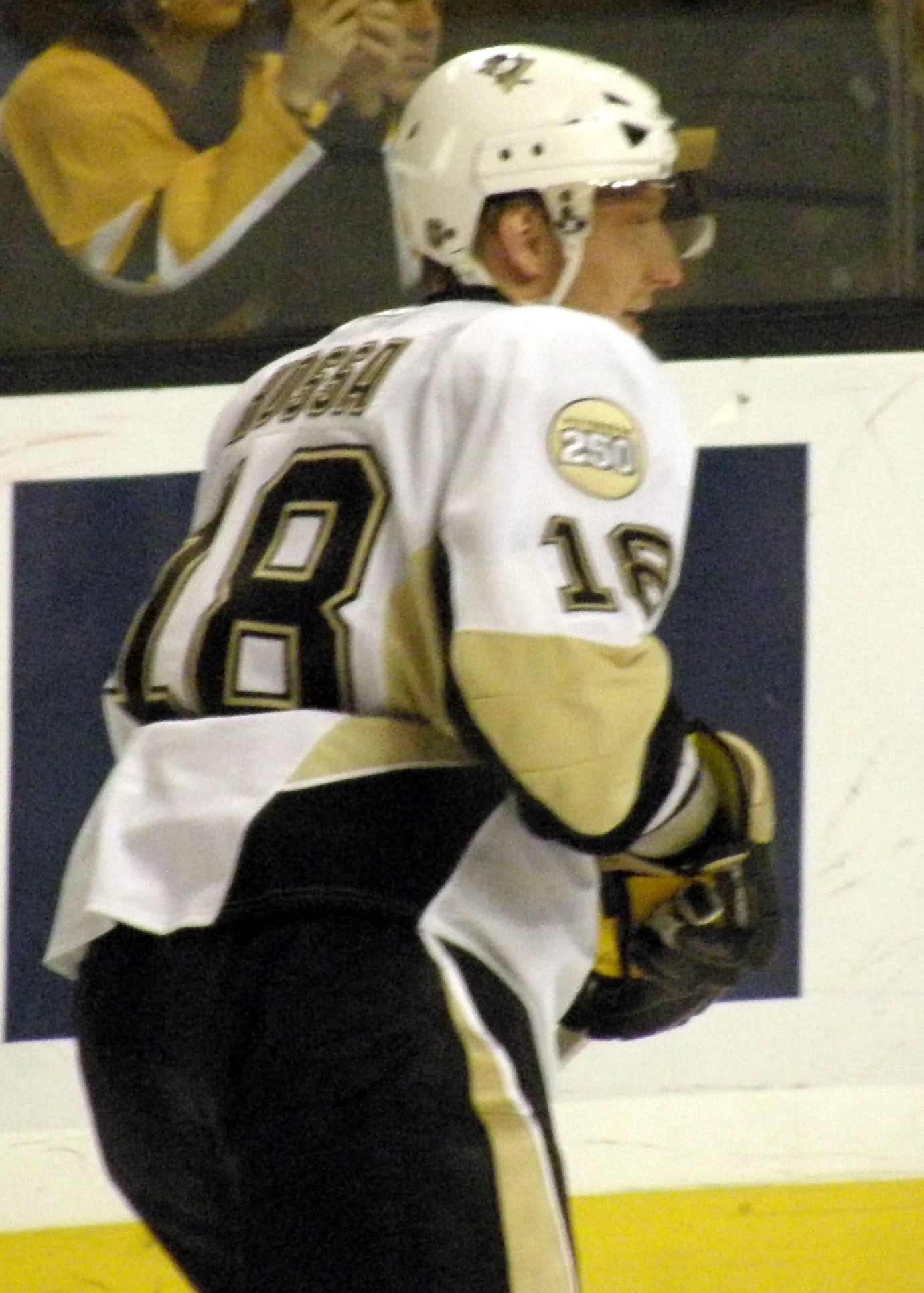 #18 Marian Hossa (RW) got injured during this game, so this was the only shot I got of him.